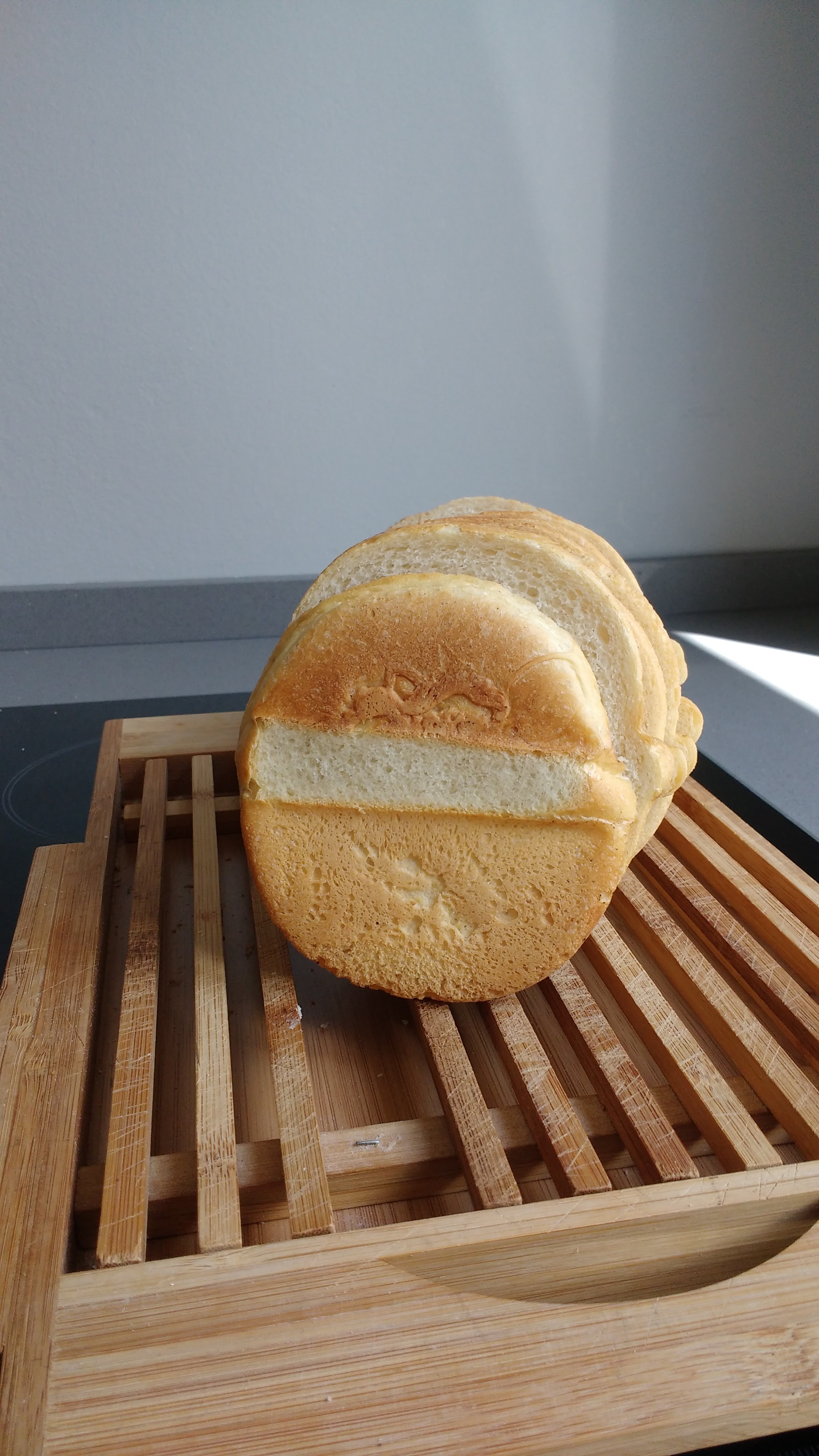 Dutch white casino bread